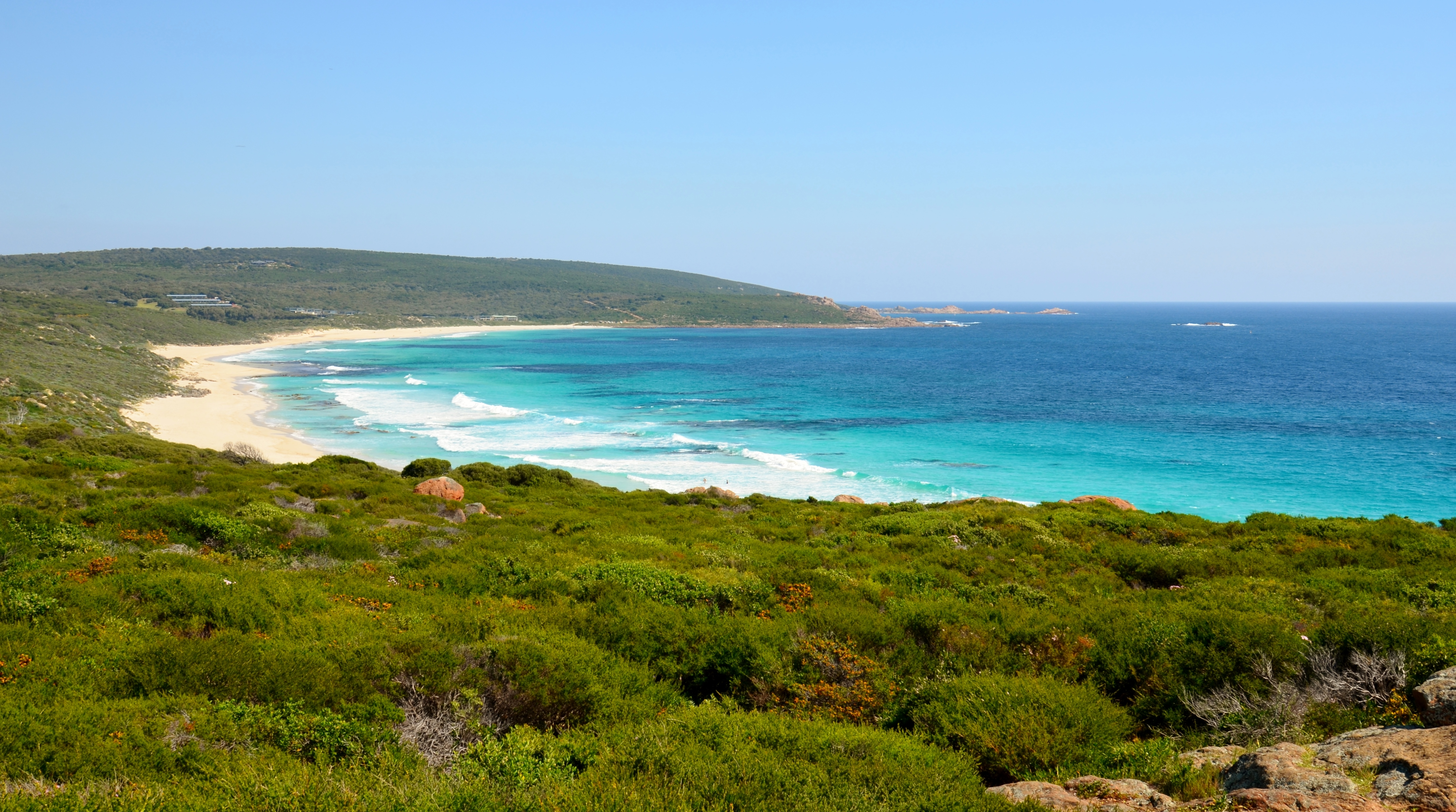 View of Smiths Beach (at left) and Canal Rocks (in the background at centre right), just south of Yallingup, Western Australia.